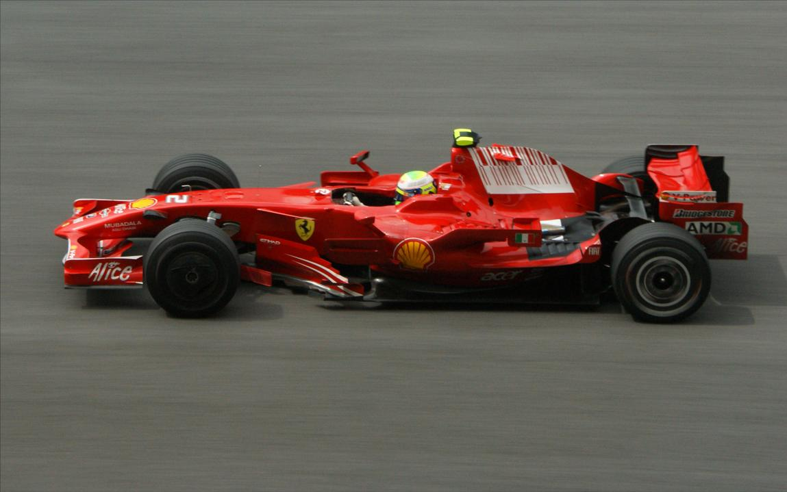 Felipe Massa driving for Scuderia Ferrari at the 2008 Malaysian Grand Prix.